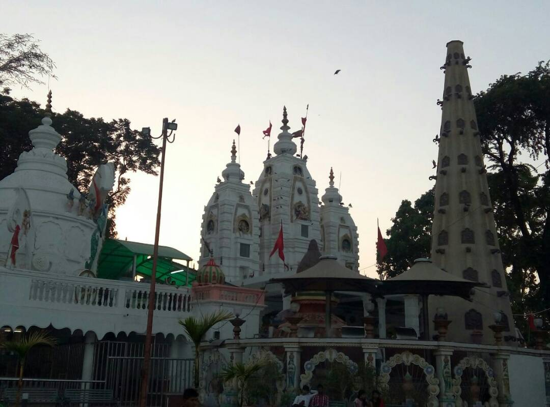 The outside full view of Khajrana Ganesh Mandir, Indore, Madhya Pradesh.